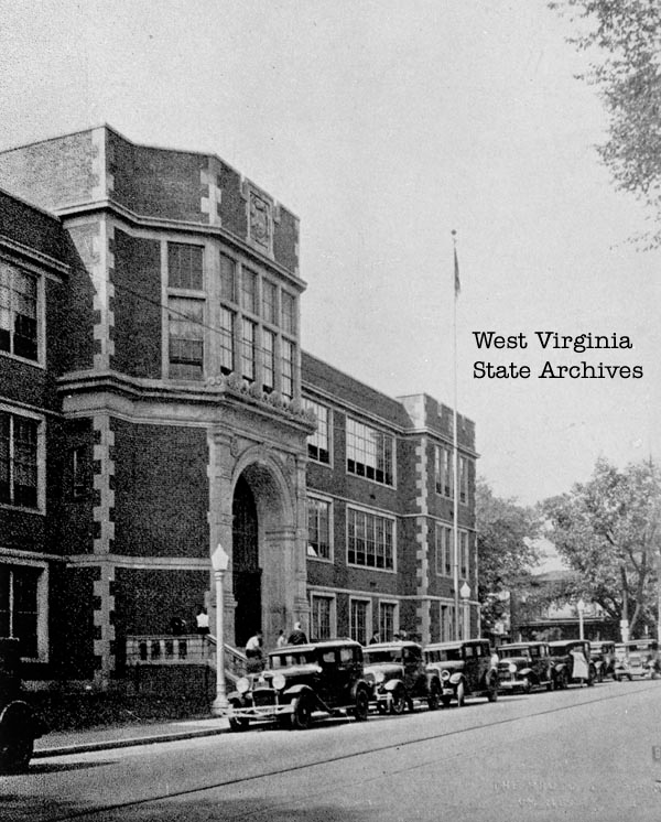 Charleston High School, Washington Street entrance. From yearbook Charlestonian, 1933. Negative Number: 2862 09 Collection: West Virginia State Archives